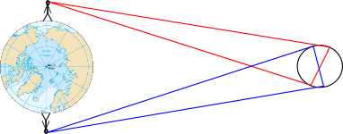 diagram explaining Diurnal libration.